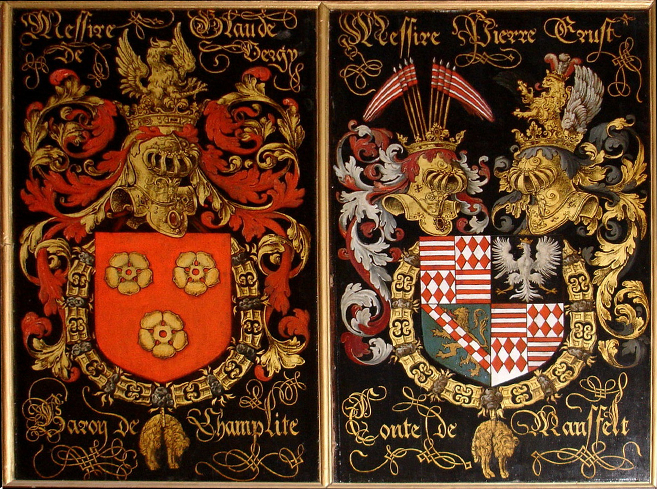 Shields of Claude de Vergy (1495-1560?) and Peter Ernst I (1517-1604) count of Mansfeld as knights in the Order of the Golden Fleece. 1546 or later. Oil on panel (?). Ghent, Saint Bavo Cathedral.